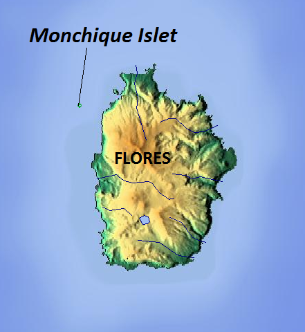 Relief map of Flores Island and Monchique Islet, Azores